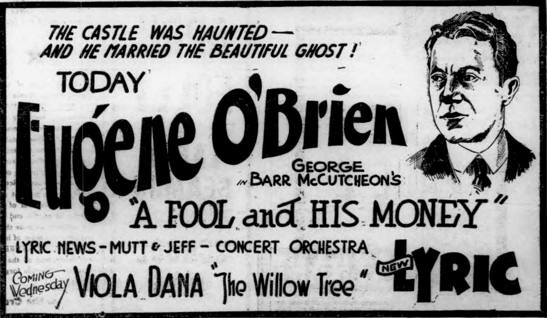 Newspaper advertisement for the American drama film A Fool and His Money (1920) with Eugene O'Brien, on page 10 of the May 8, 1920 Duluth Herald.